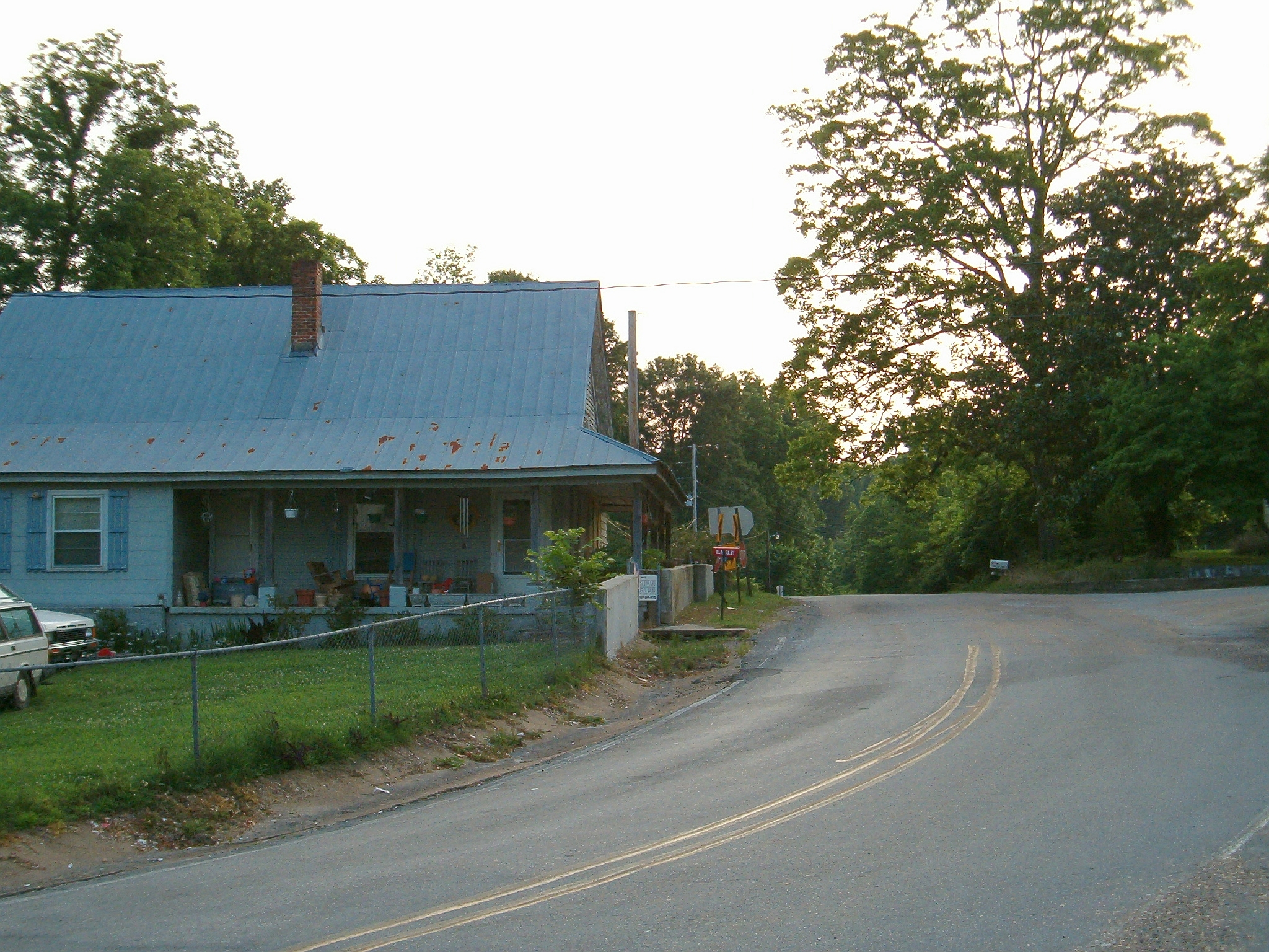 The view looking away from Taylor Grocery, Taylor, Mississippi, United States.